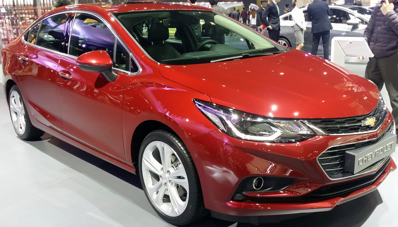 Chevrolet All New Cruze